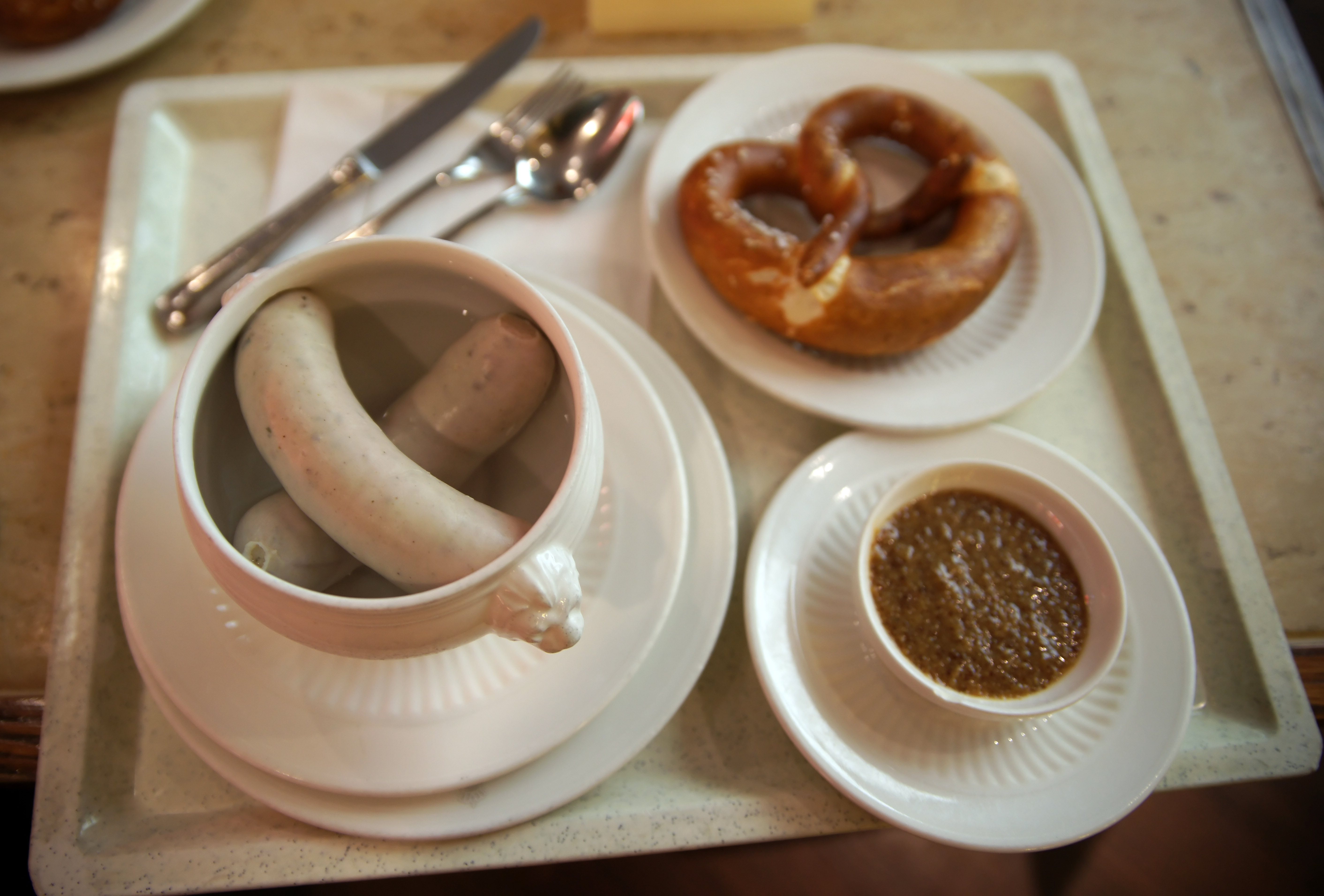 A traditional Bavarian breakfast with Weisswürste, Brezn and mustard.